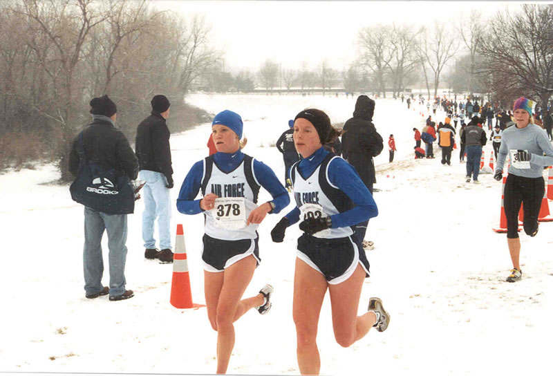 Armed Forces members Coppinger and Ballas in a cross country meet, Picture from: License: Information presented on Air Force Services Agency Website is considered public information and may be distributed or copied. Use of appropriate byline/photo/image credits is requested.